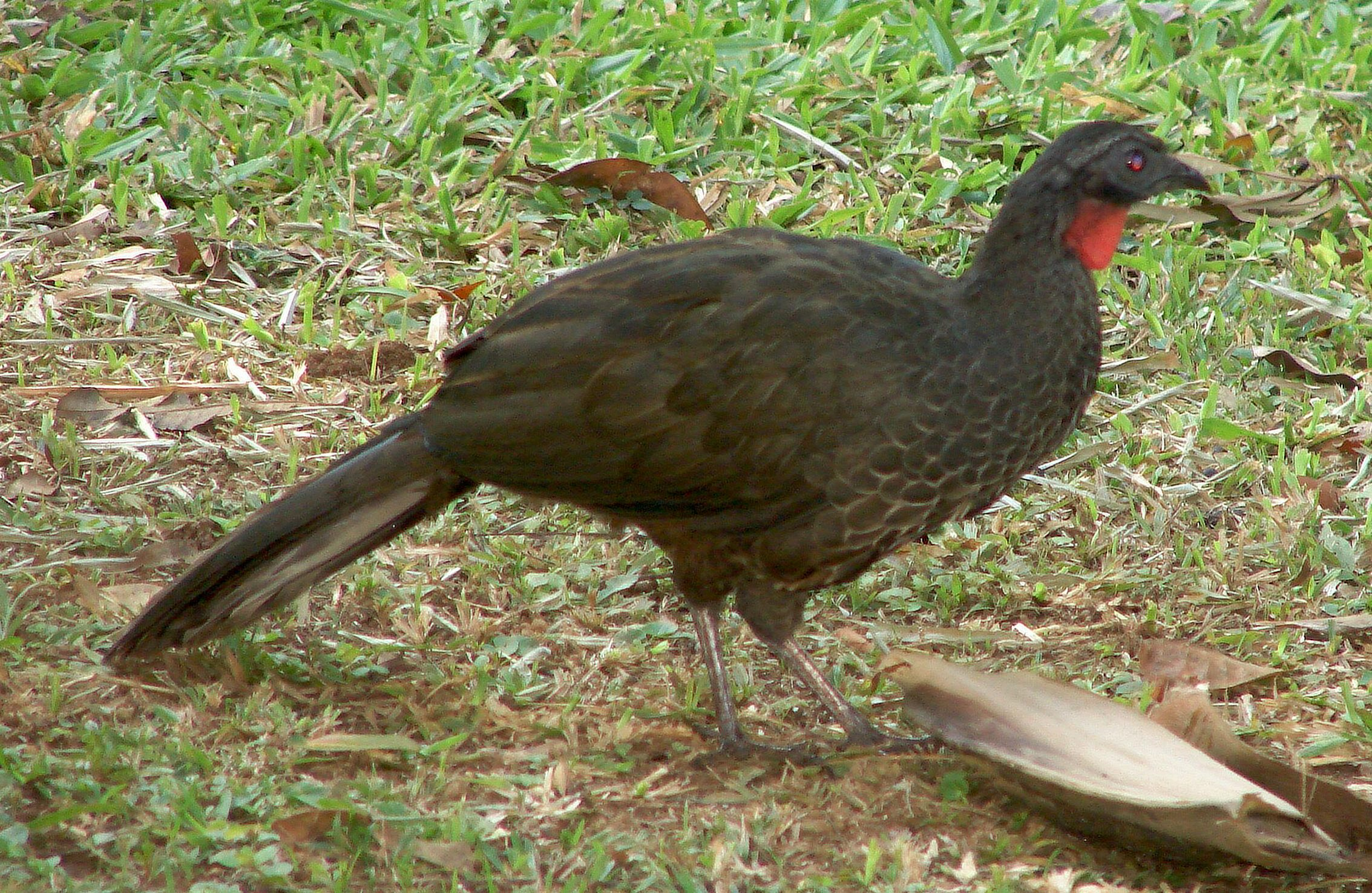 Rusty-margined Guan (pt-Br=Jacupemba). Picture taken at Rio de Janeiro Botanical Garden.It is a free bird.